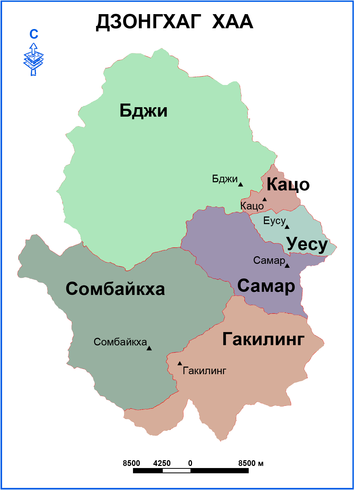 Haa District map, Bhutan, 2011